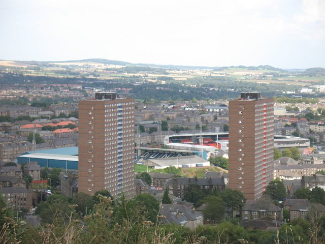 Football grounds View from The Law of the two closest footballing neighbours. Dens Park nearest (Dundee) and Dundee United's Tannadice just over the road.